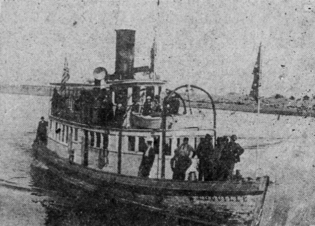 SteamboatCoquille, image published in The Sunday Oregonian, January 26, 1913.